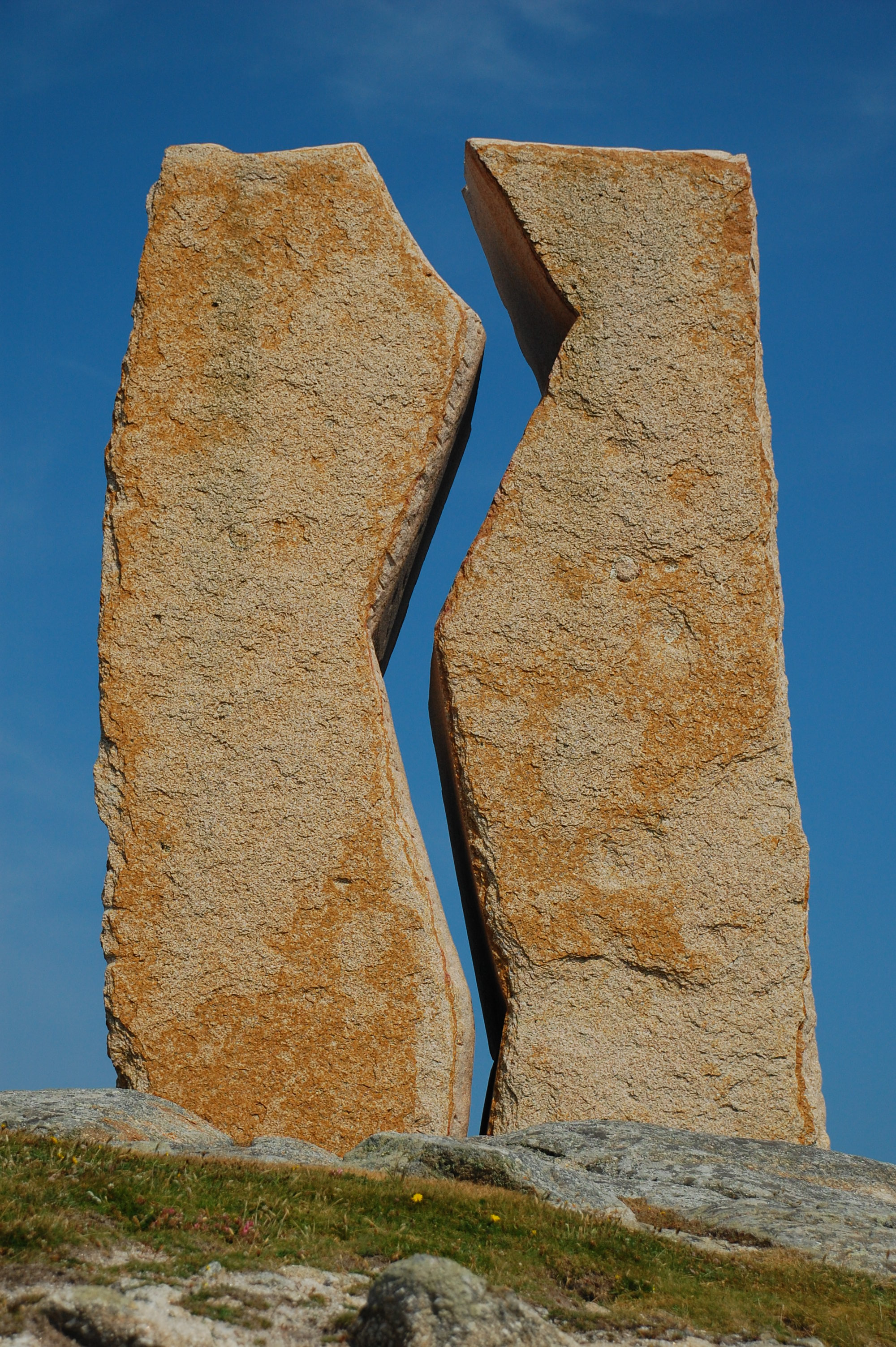 A Ferida (The Wound) is a granite sculpture of 400 tons and 11 meters high next to the Virxe da Barca church in Muxía, in the Way of St. James to Fisterra-Muxía, in the province of A Coruña, Galicia, Spain. The sculptor Alberto Bañuelos Fournier was commissioned to commemorate the volunteers who cleaned the beaches after the Prestige oil spill. The Way of St. James is considered as Heritage of Cultural Interest.